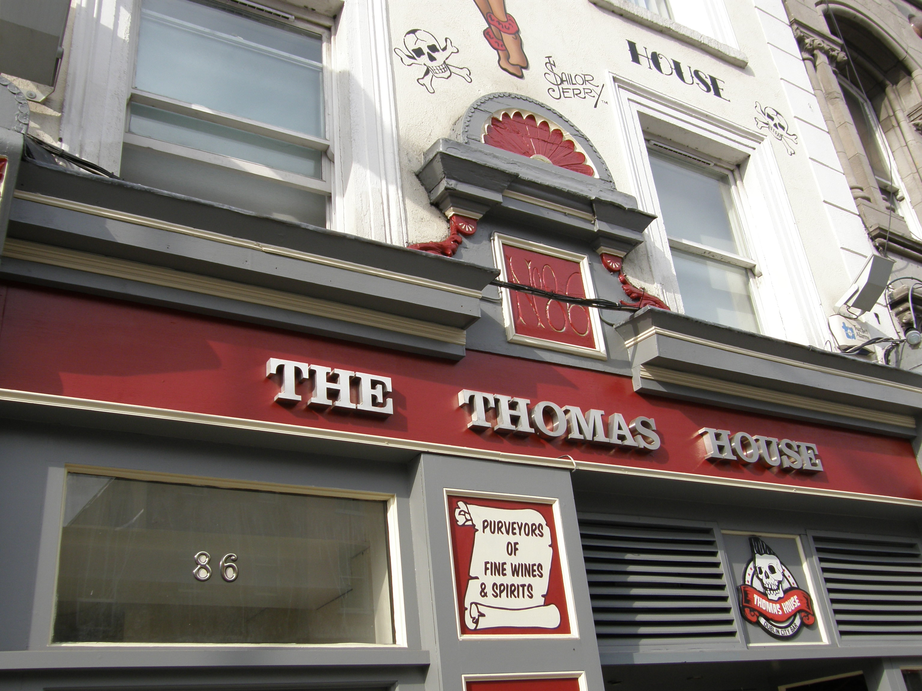 Thomas House, Thomas Street